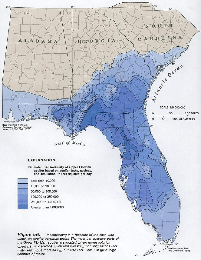 Owner: US Geological Survey. "Most U.S. Geological Survey (USGS) information resides in the public domain and may be used without restriction. There is no legal requirement for users to acknowledge or credit USGS as the source for public domain information, but they may wish to do so as a courtesy." Copyright information. Creator: The actual creator of the image is unknown and not specified within the image or site. Origin: The image was retrieved on December 24, 2007 at USGS